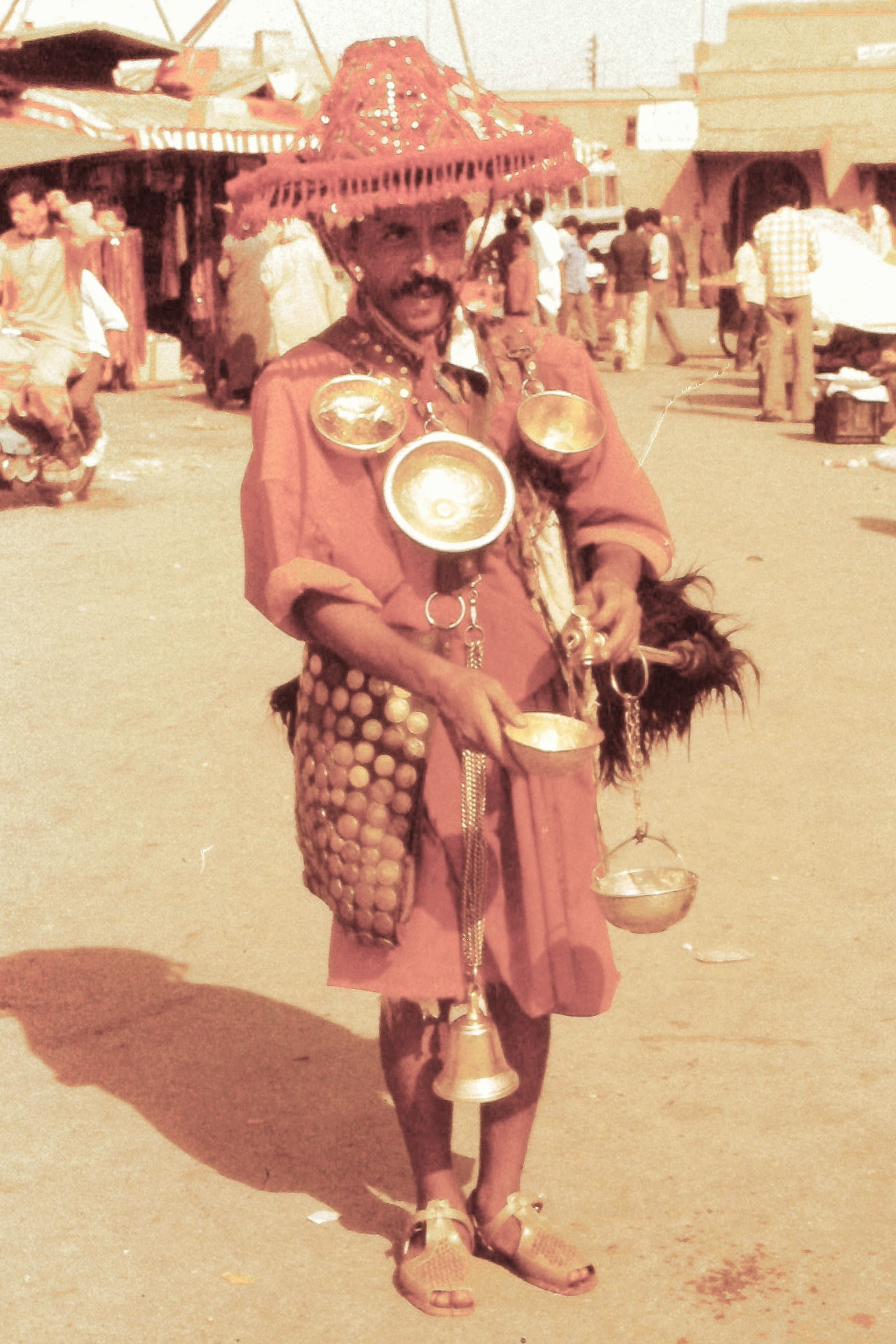 Moroccan water seller